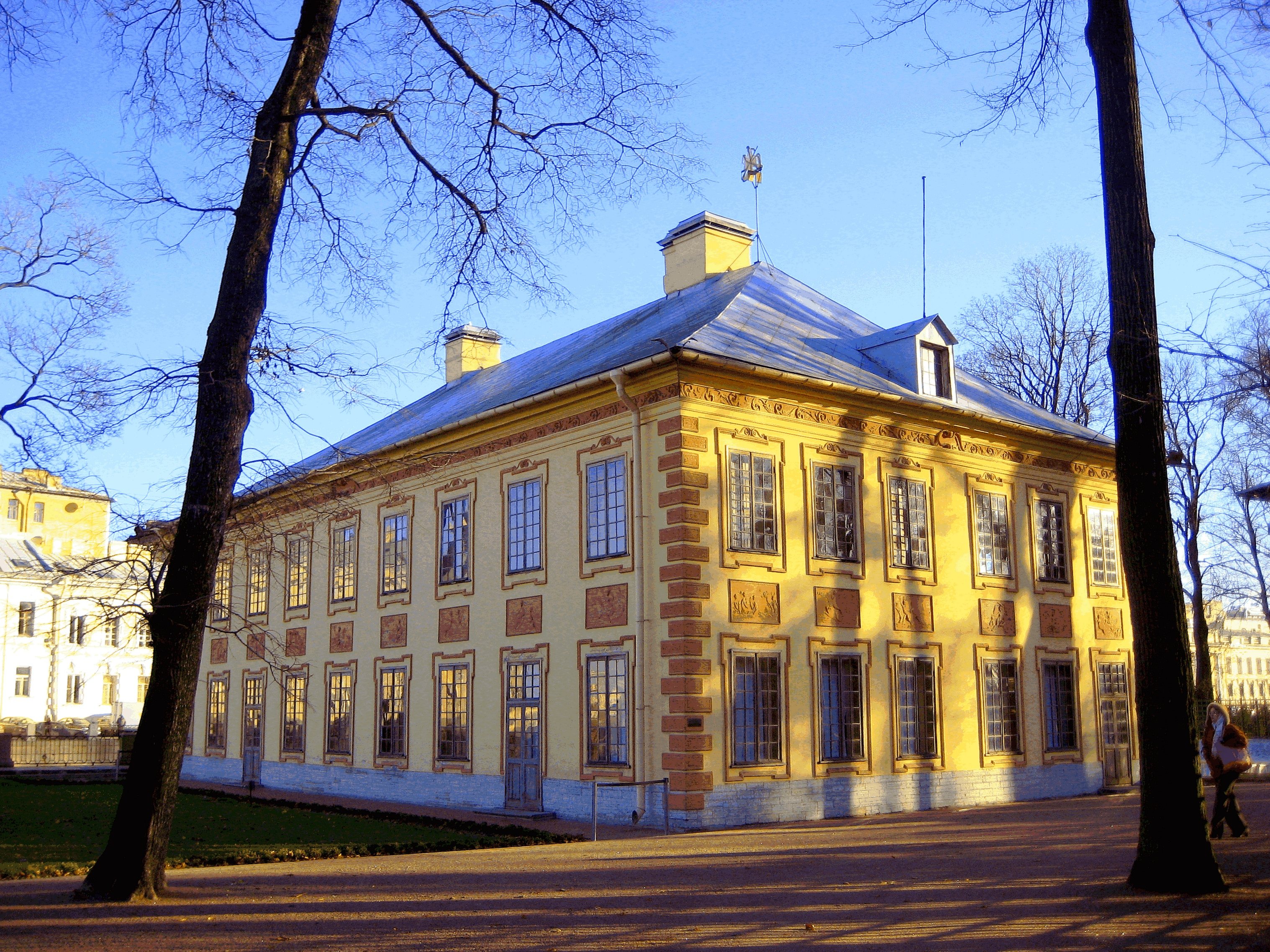 Summer Palace of Peter I (arch. D. Trezzini), 1710-1712. View from the Neva: Summer Garden, Central District, St. Petersburg.